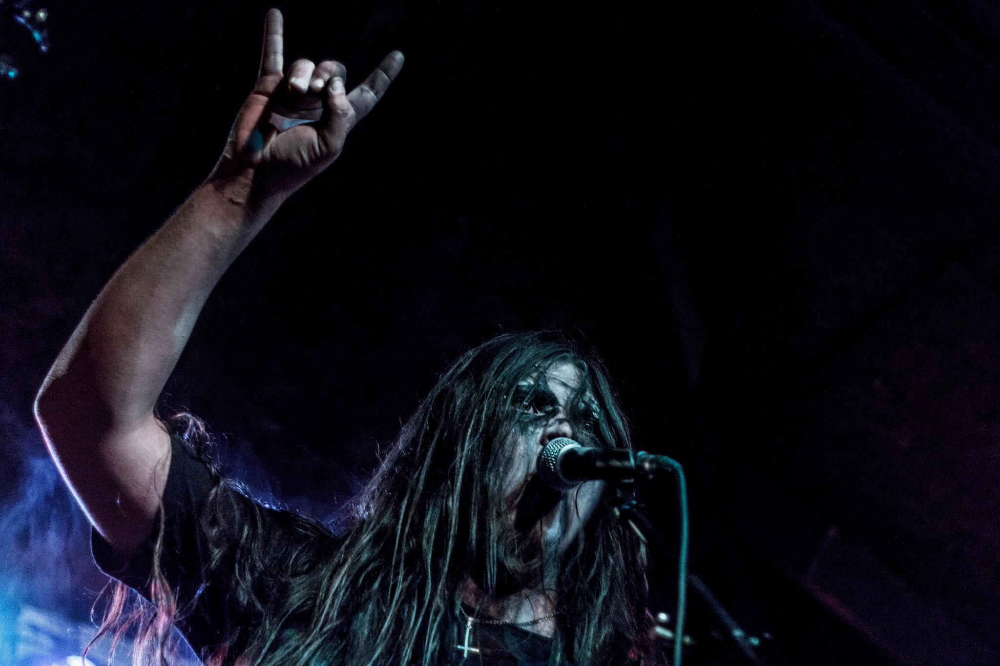 Photo by Jose Orellana